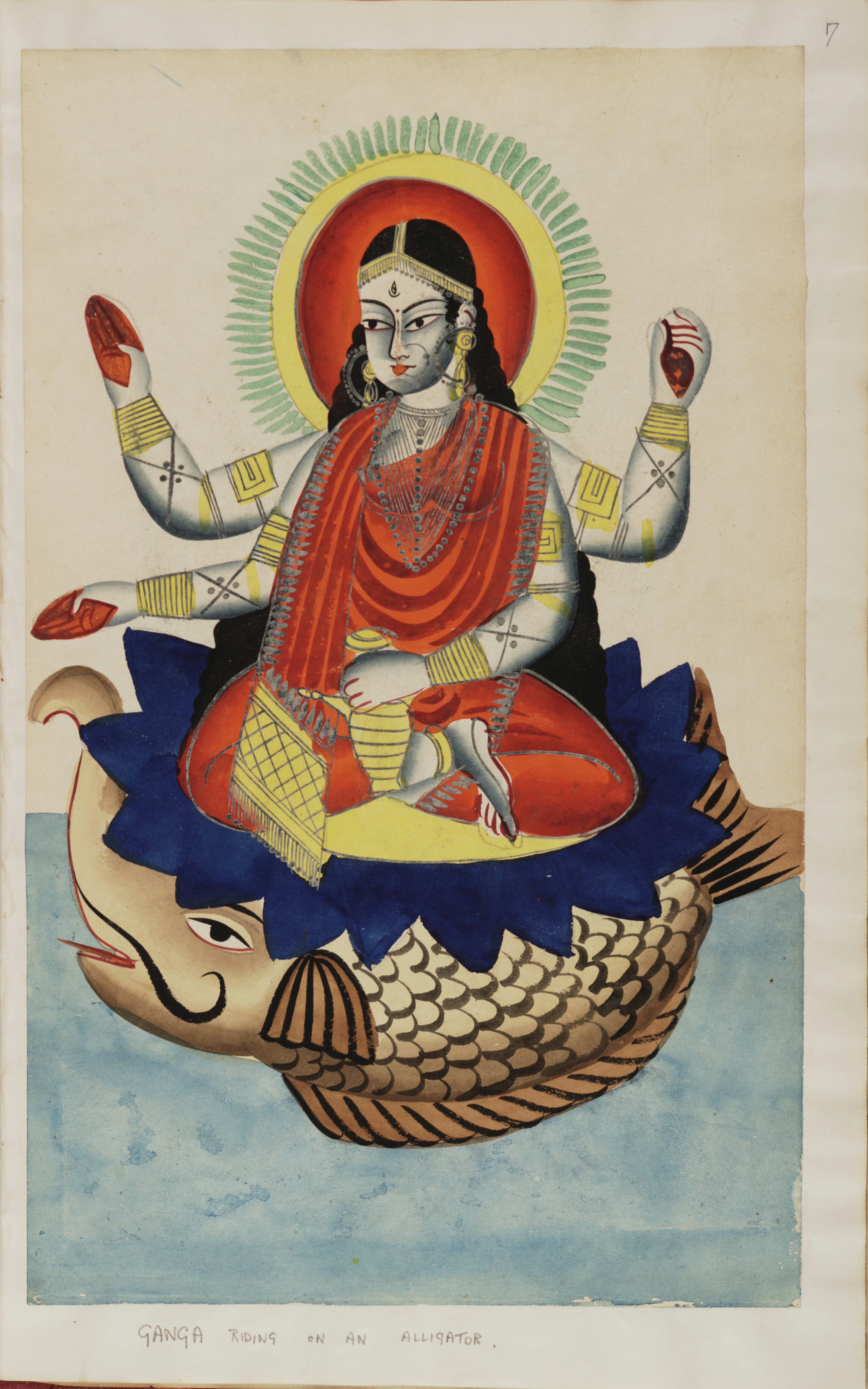 Ganga, goddess of the river Ganges, riding on an alligator. Digitized Kalighat painting from 19th century Calcutta, created as inexpensive souvenirs for Hindu pilgrims visiting the famous temple of Kali; The paintings are bound in a single volume, which includes eight hand-coloured woodcut prints (ff. 29-36). They were acquired by Sir Monier Monier-Williams for the Indian Institute Library and Museum at Oxford as a result of his third fund-raising trip to India in the winter of 1883-1884. During this trip, he secured the help of various regional authorities in obtaining local art and craft work and sending them to Oxford. The Kalighat paintings and prints are listed in Babu T.N. Mukherji's "List of Articles collected for the Oxford Institute under the instruction of T.W. Holderness Esq. and Dr. George Watt," Calcutta, 1884, which is bound in the "Original Lists" MS volume held in the Department of Eastern Art, Ashmolean Museum. Shelfmark: MS. Ind. Inst. Misc. 21 [Arch. O. a. 7]